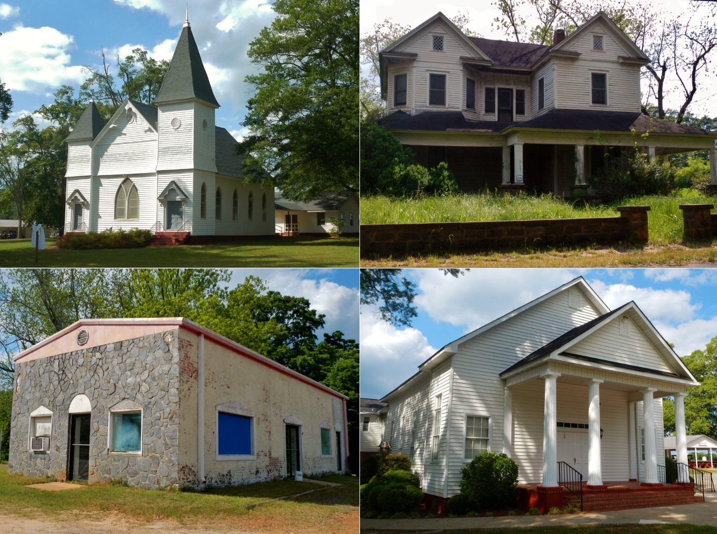 This is a photo collage of Corinth, Georgia; a town in Coweta and Heard Counties.